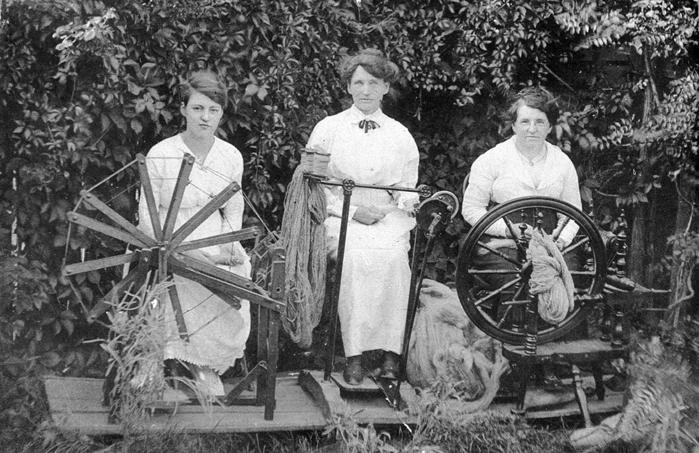 Photograph of three women spinning wool to knit socks for soldiers during World War I - Tenterfield, NSW, ca. 1915. Photographer unknown. Notes: Find more detailed information about this photograph: .au/item/itemDetailPaged.aspx?itemID=394773 From the collection of the State Library of New South Wales